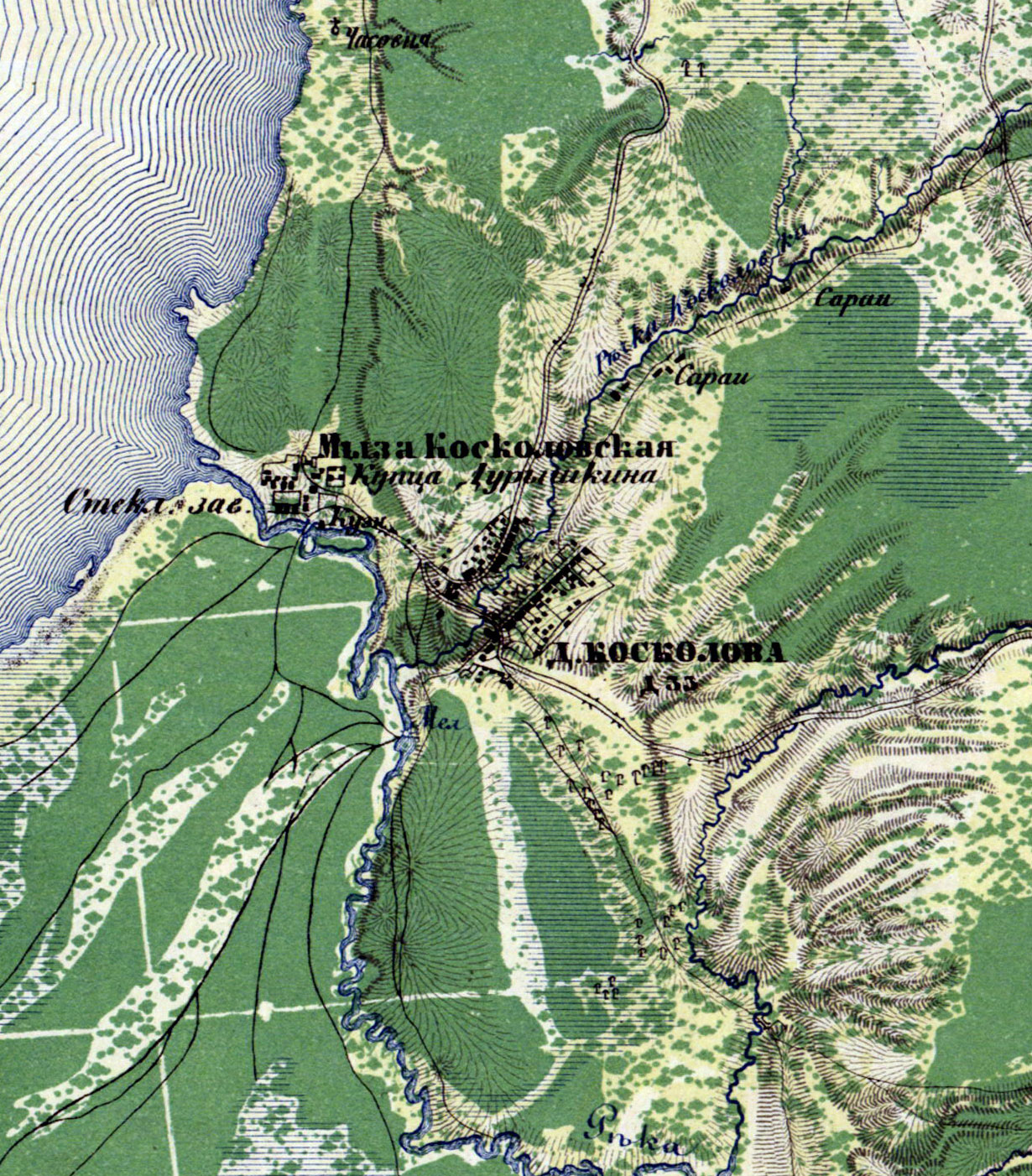 map of Koskolovo